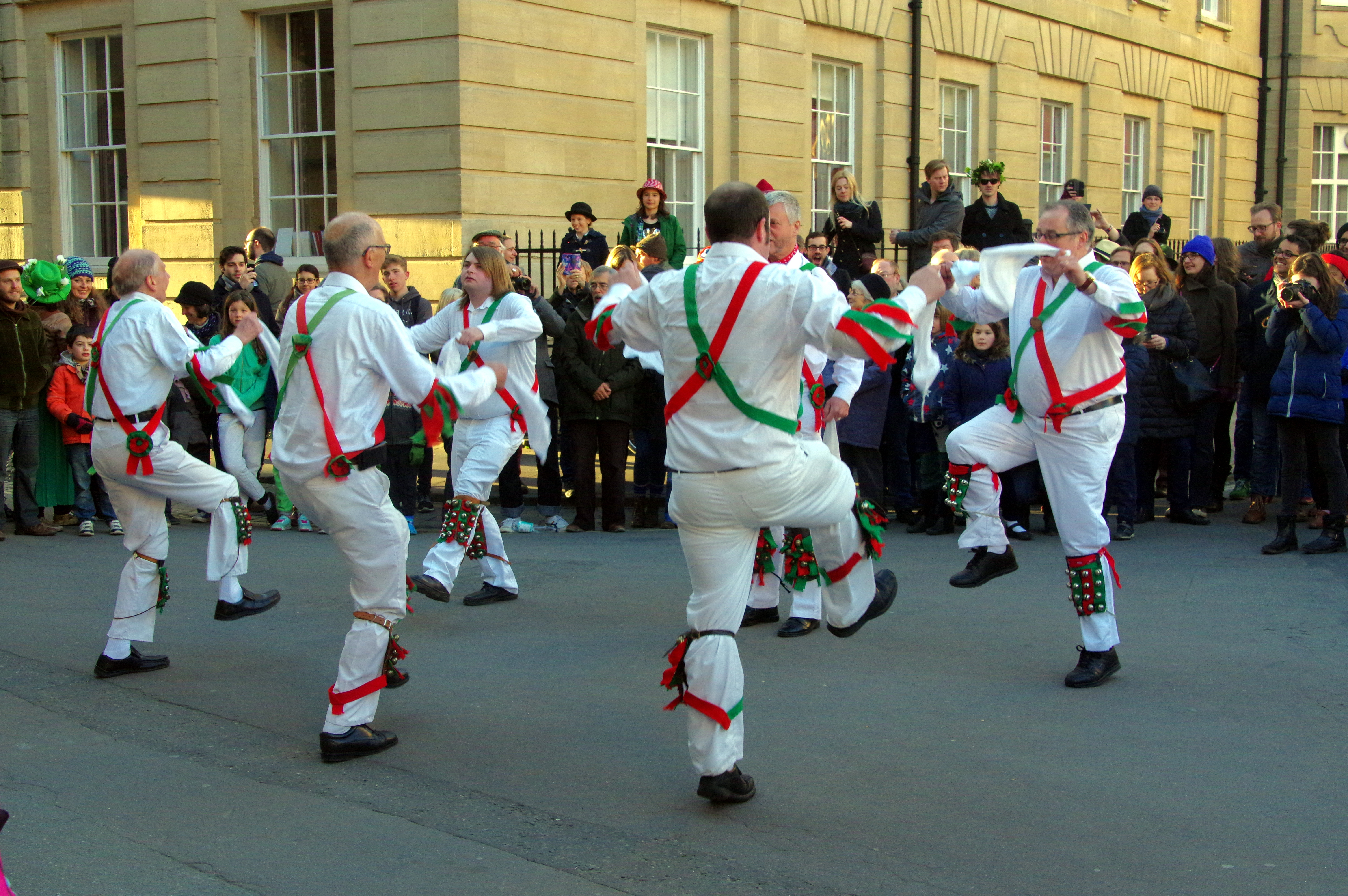 1.5.16 Oxford May Morning